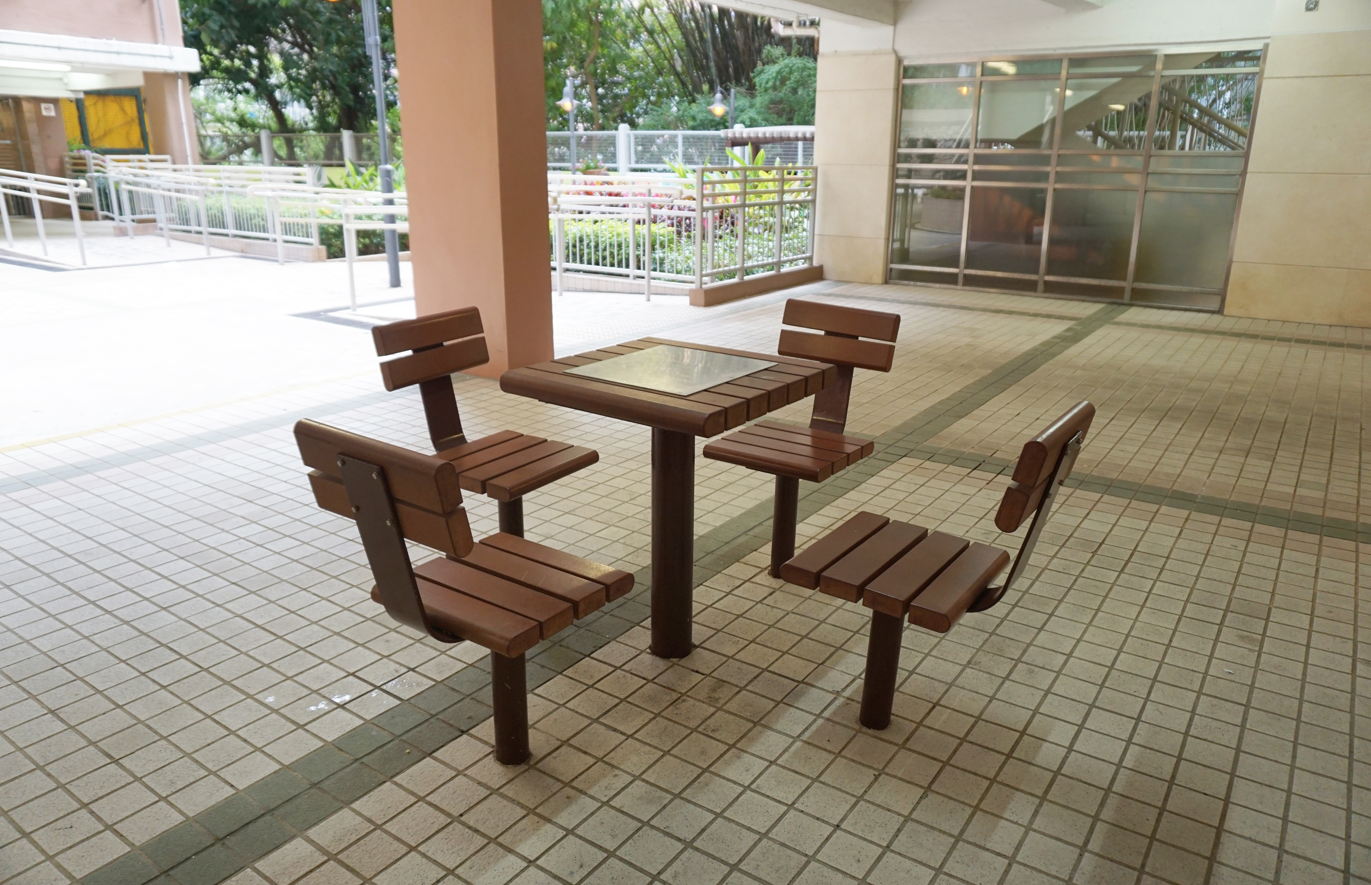 Ming Wah Dai Ha in Shau Kei Wan, Hong Kong.